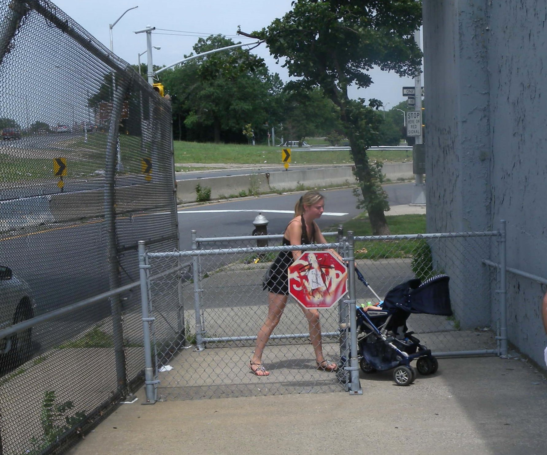 Looking east as a mother negotiates a chicane to cross the Expressway on a mostly sunny midday.